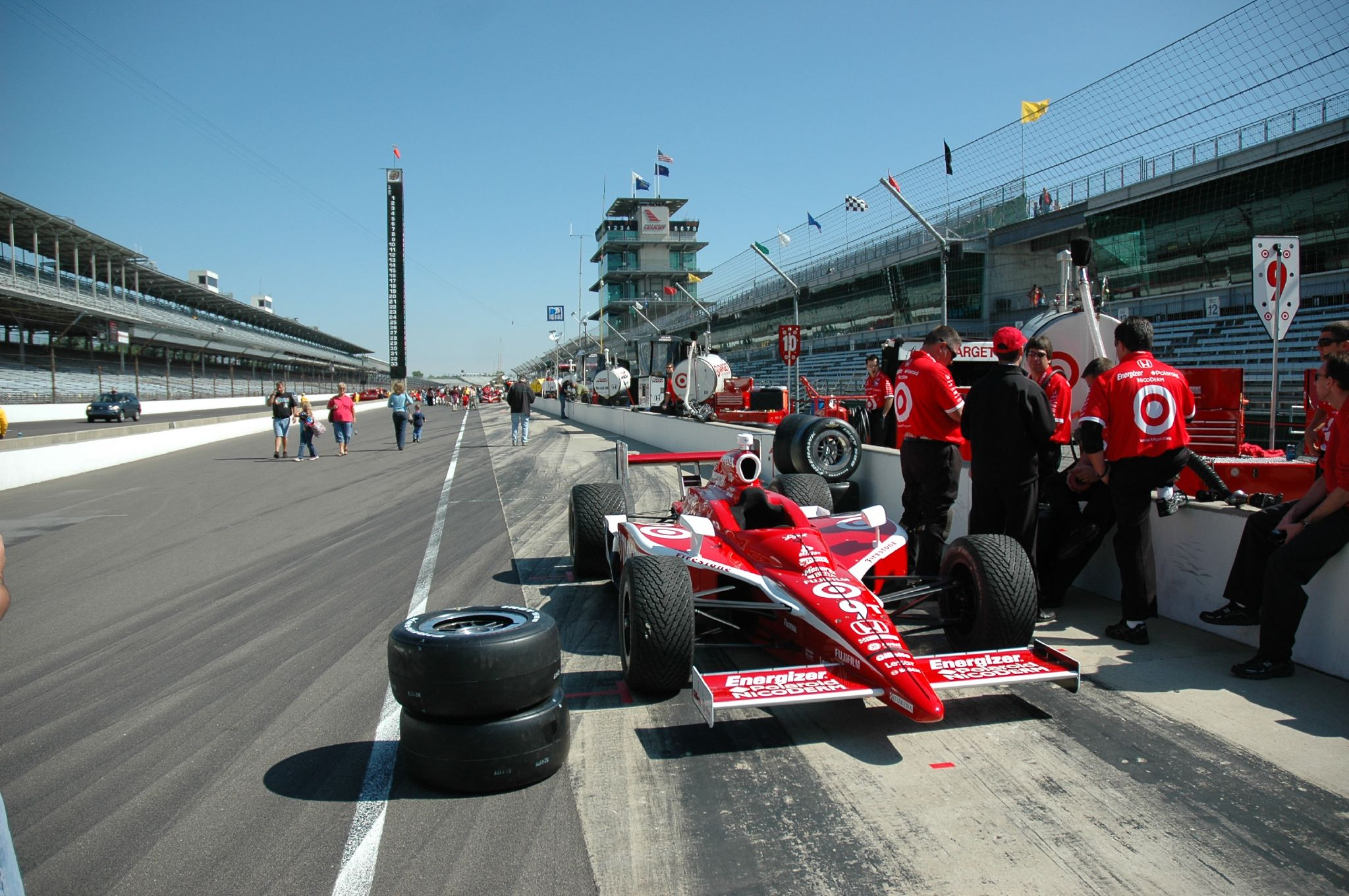 Scott Dixon's car at IMS Community Day, 21 May 2008